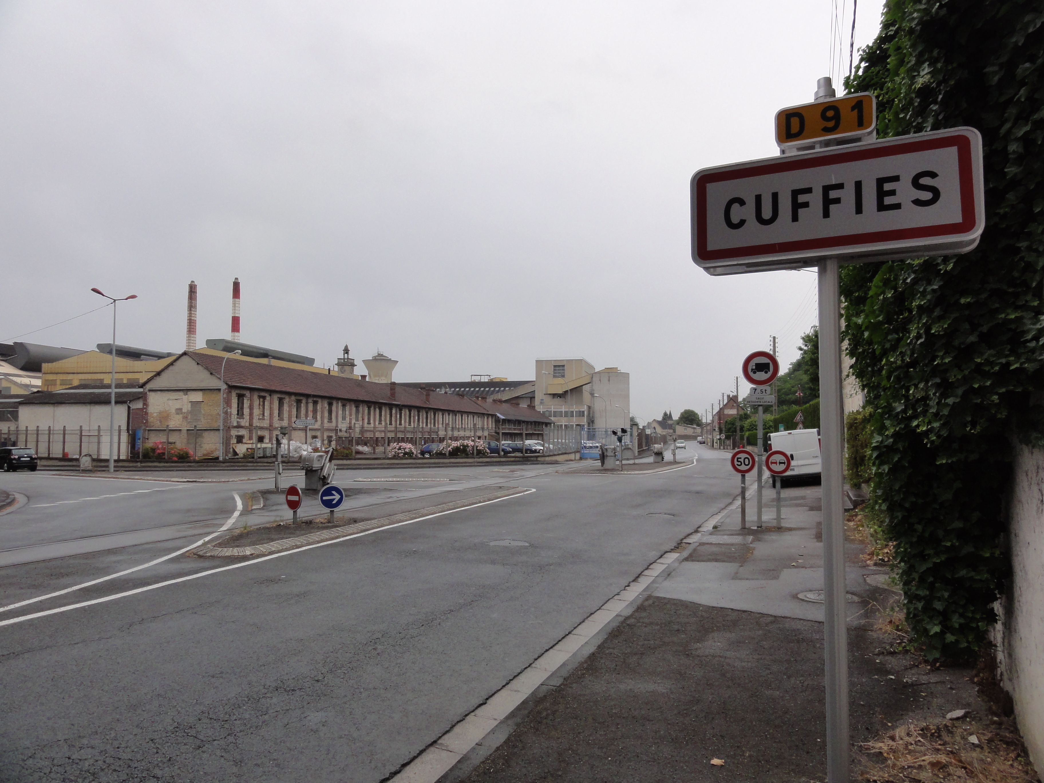 Cuffies (Aisne) panneau d'entrée Cuffies, verrerie de Vauxrot